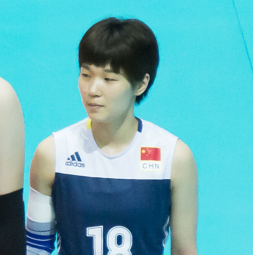 China team 1. XINYUE YUAN袁心玥 2. TING ZHU朱婷 3. JING LI 4. JINGWEN QIAN 5. YI GAO高意 6. XIANGYU GONG龚翔宇 8. DI YAO 姚廸 10. XIAOTONG LIU刘晓彤 12. YIXIN ZHENG 15. LI LIN林莉 16. XIA DING丁霞 17. YUANYUAN WANG 18. MENGJIE WANG 21. YUNLU WANG